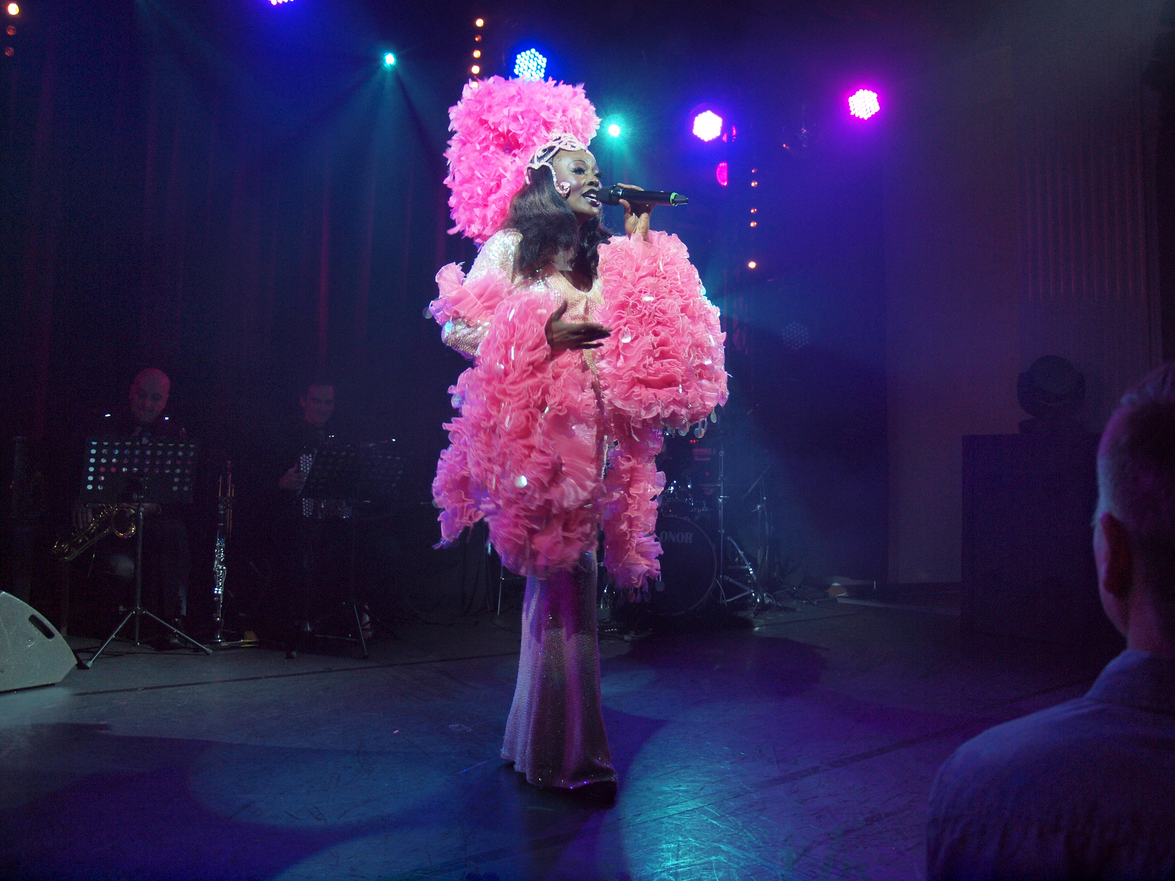 A female singer at the Paris Cabaret Show in Casino Helsinki, Finland.